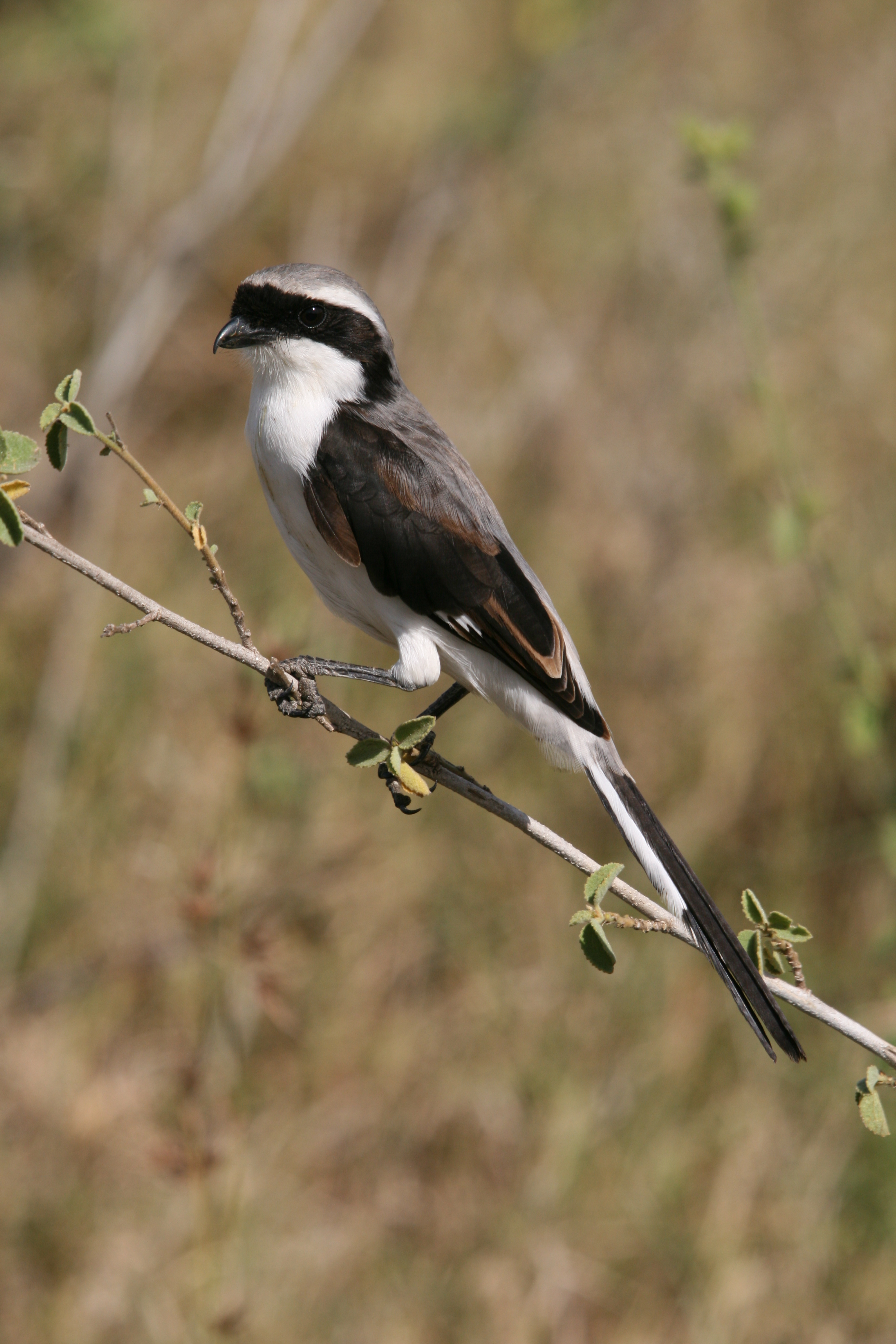 Grey-backed Fiscal (Lanius excubitoroides), picture taken at Serengeti Nationalpark, Tanzania